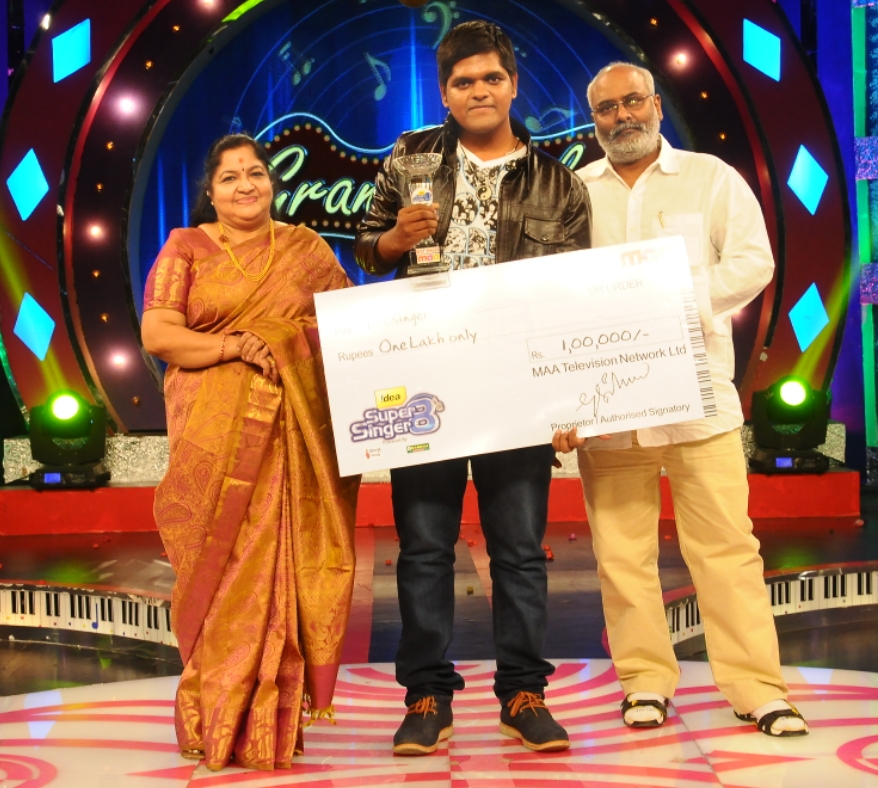 Anurag Kulkarni receiving the TITLE "Idea Super Singer", Season 8 from M. M. Keeravani and Padma Shri K. S. Chitra ji